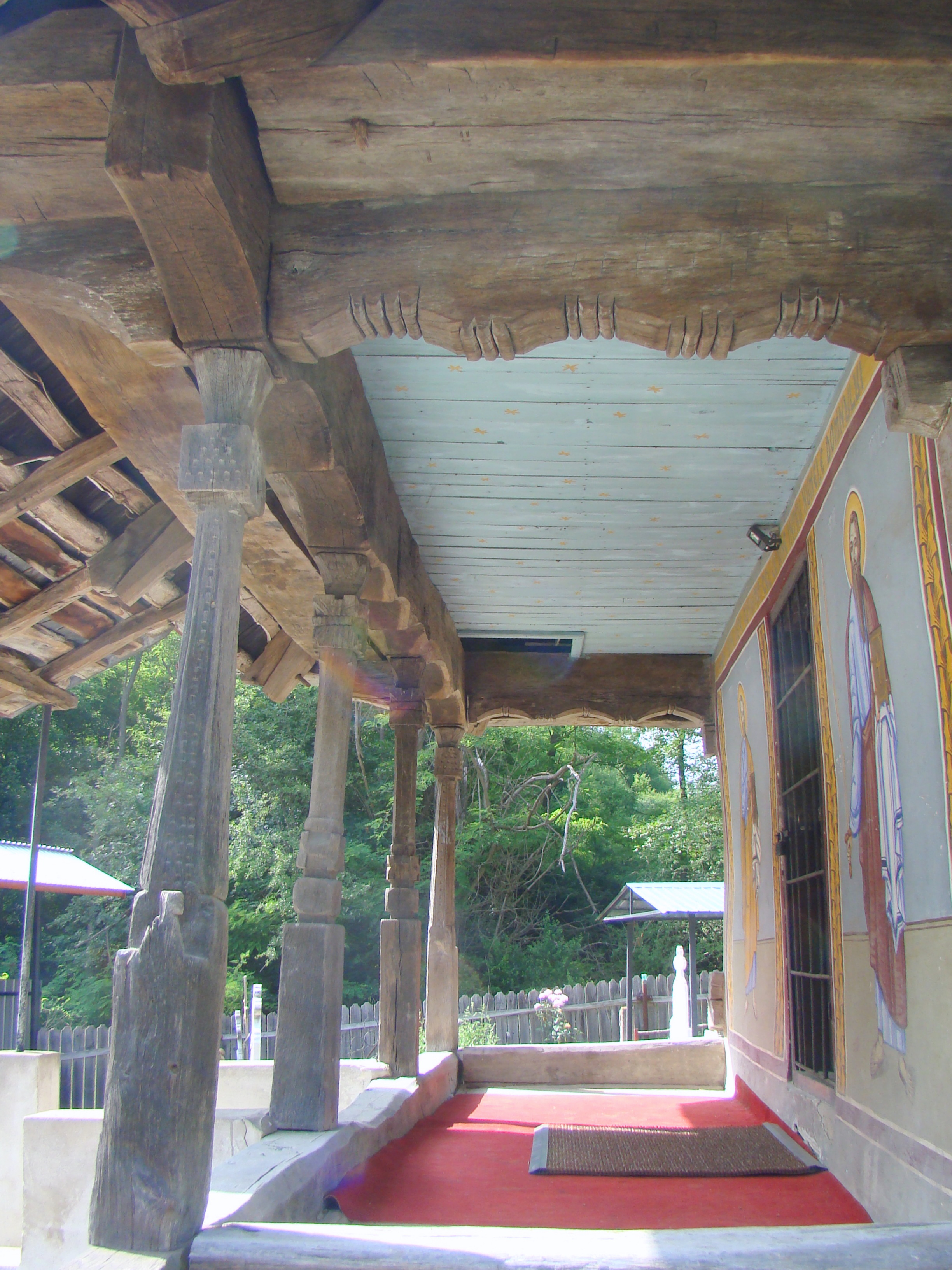 Wooden church in Brătuia, Gorj county, Romania